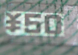 "¥" symbol in the RMB50 note's safe line.